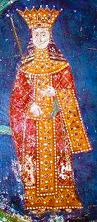 Fresco of Ana Neda of Serbia